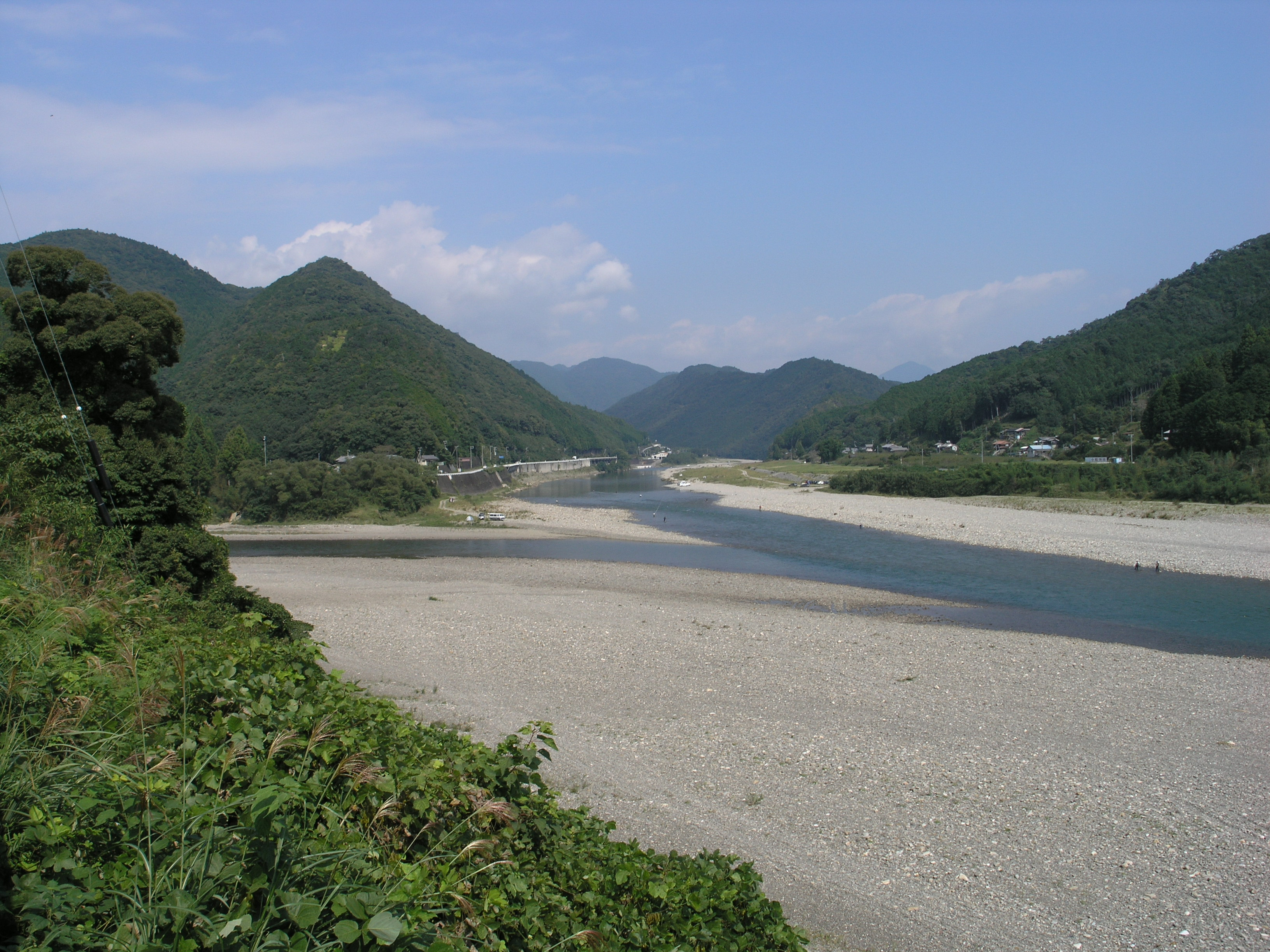 Kumanogawa and Kitayamagawa, Kumanogawa(town), Wakayama and Kiwa, Mie